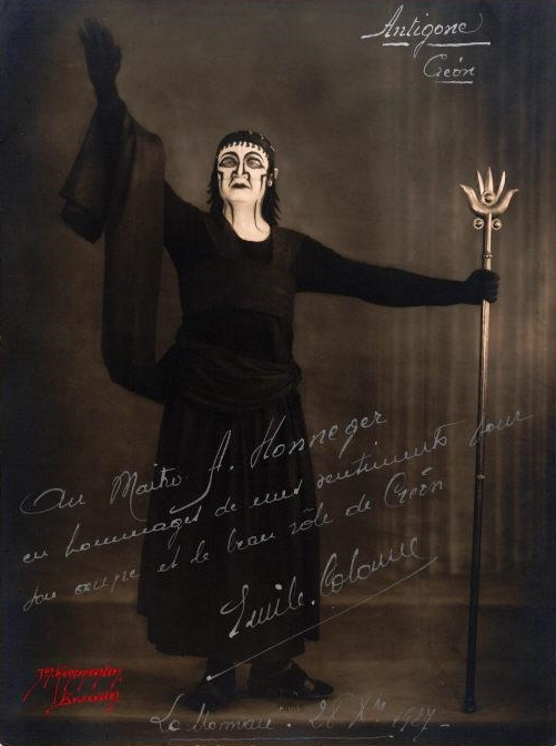 Émile Colonne as Créon in Honegger's Antigone at the premiere on 28 September 1927 at the Théâtre Royal de la Monnaie in Brussels. Music by Arthur Honegger, libretto by Jean Cocteau, costumes by Coco Chanel, sets by Pablo Picasso.